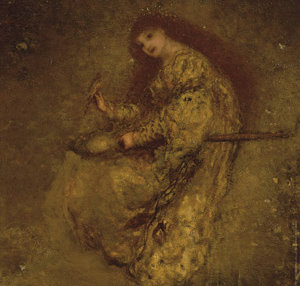 The Goatherd